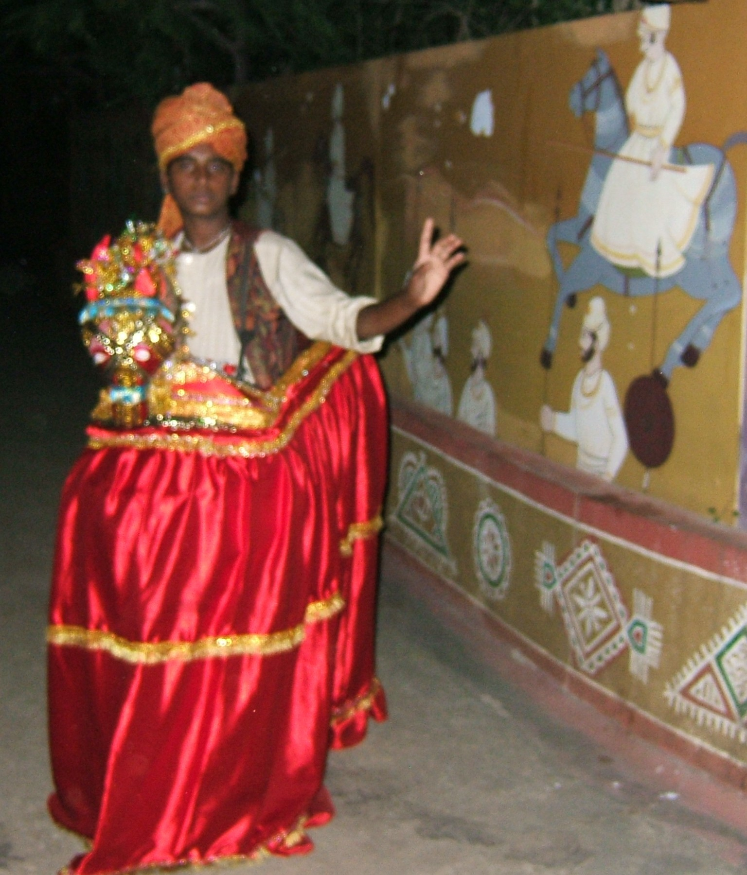 Out from the kitchen and dining area, we come across this 'kachhi ghodi' dancer doing his act in front of more Rajasthan style paintings. Not limited to Rajasthan alone,the 'kachhi ghodi' or hobby horse dance is performed all over India, where a performer gets into a frame fitted with a horse costume, including a horse like paper maiche head at one end and a typical horse like hairy tail at the other, and bobs up and down to loud drums. (Pune/ Poona, Oct. 2008)